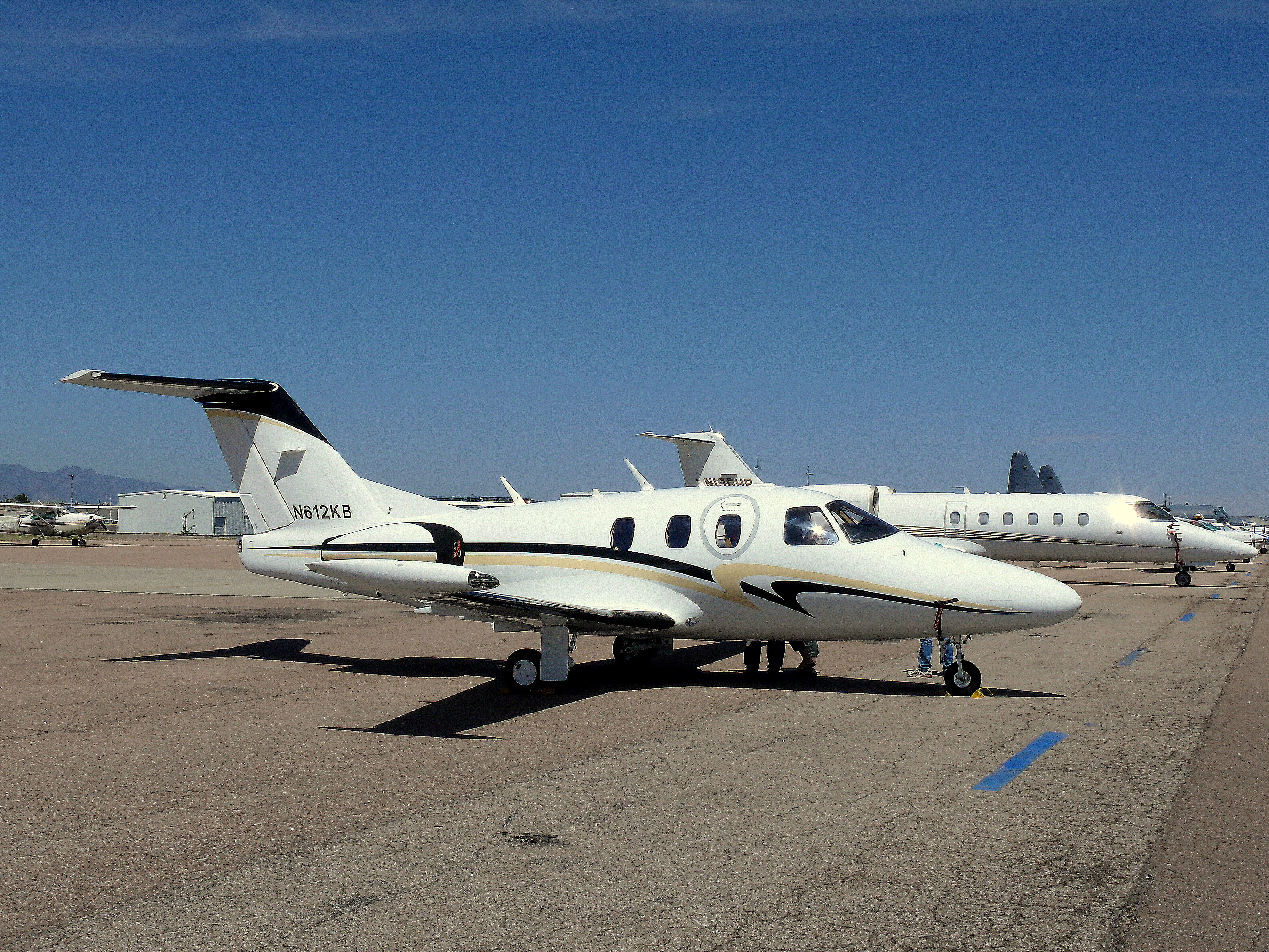 Eclipse 500 parked at Colorado Springs airport in April 2008